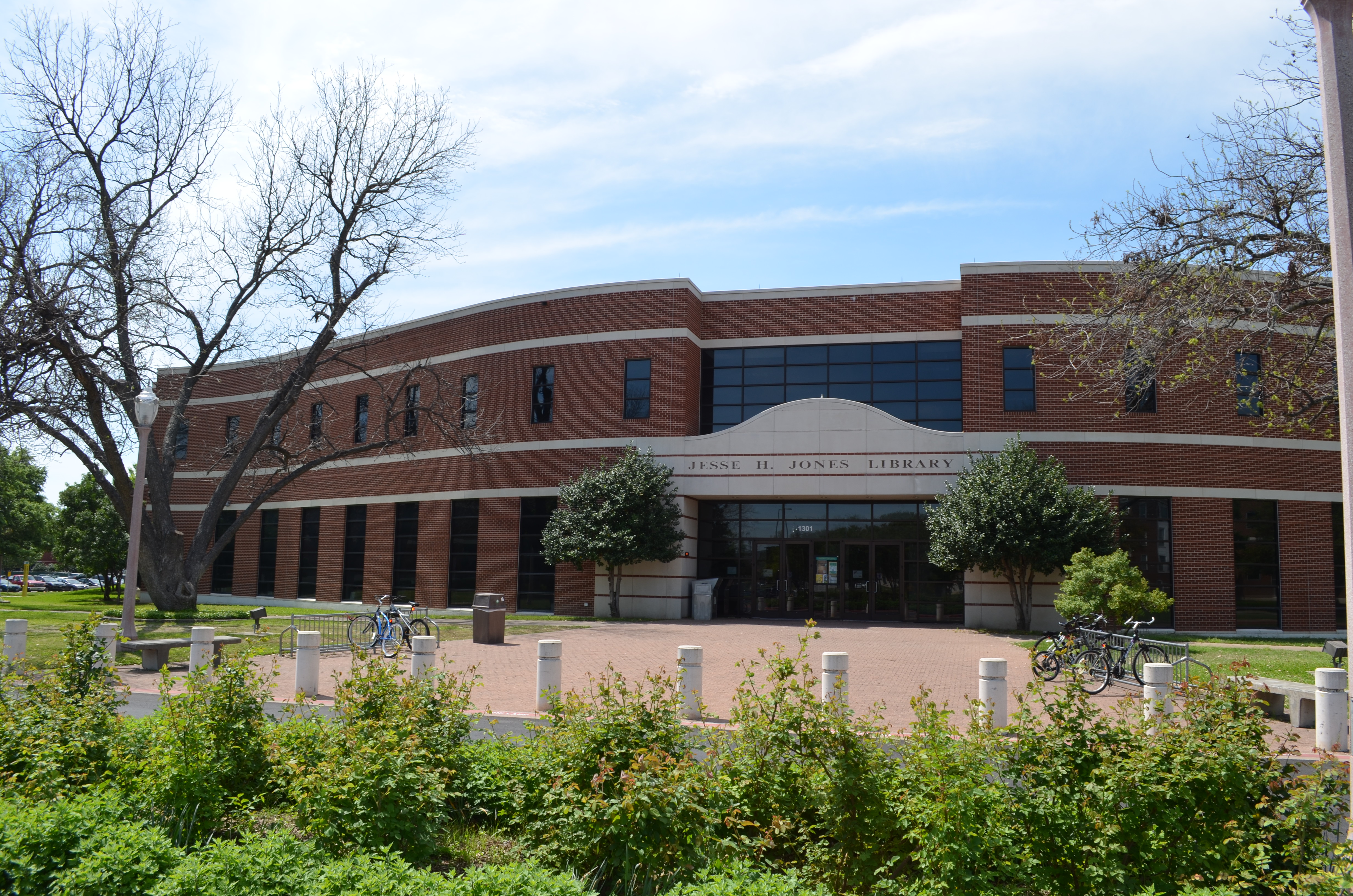 The main entrance to Jesse H. Jones Library at Baylor University